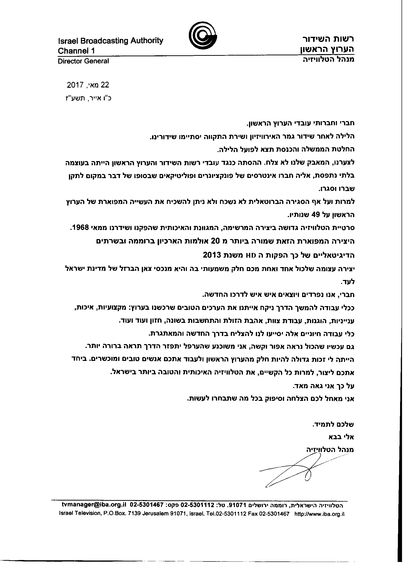 Farewell letter writter by Eli Baba Director General of Israeli Channel 1 TV station